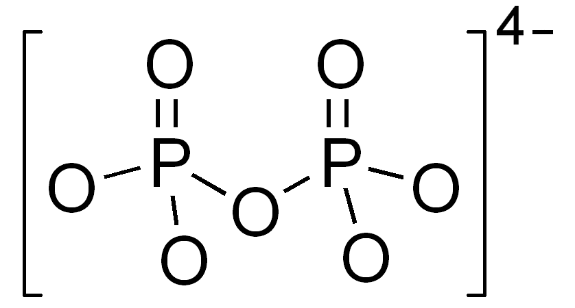 Pyrophosphate anion, structural formula